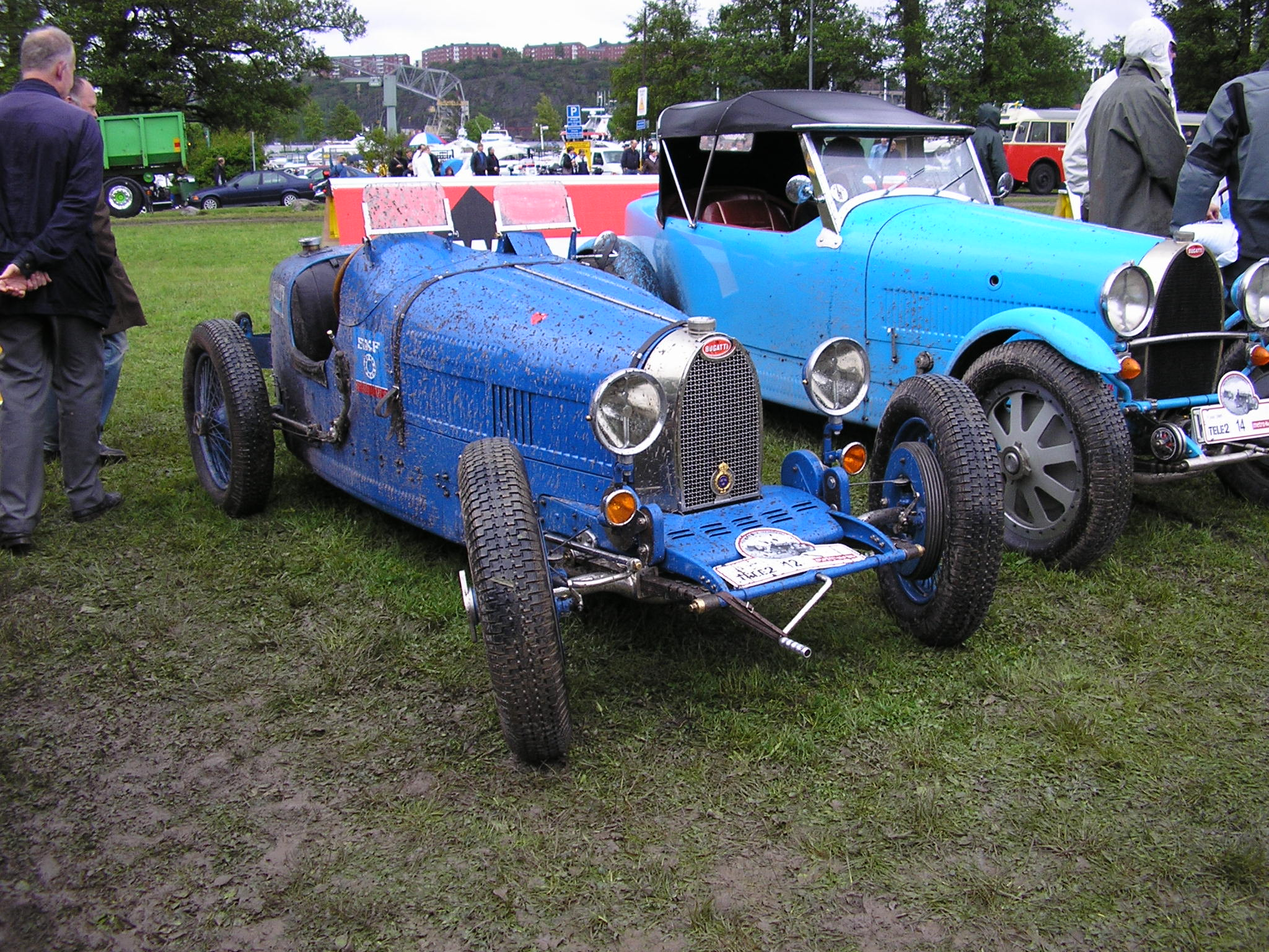 Two Bugattis, 1928 Bugatti T 37 (left), 1928 Bugatti T 43 (right). Photographed by myself at Prins Bertil Memorial in Stockholm, Sweden.